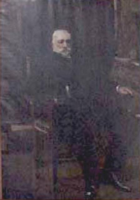 Painting of "Don Ramón Santamarina"